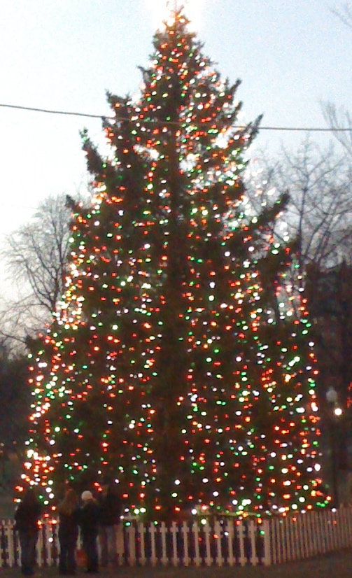 Xmas tree. On the Boston Common, Massachusetts